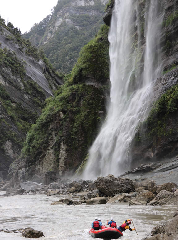 Looking downstream mid-way through Long Rapid, at higher flows.